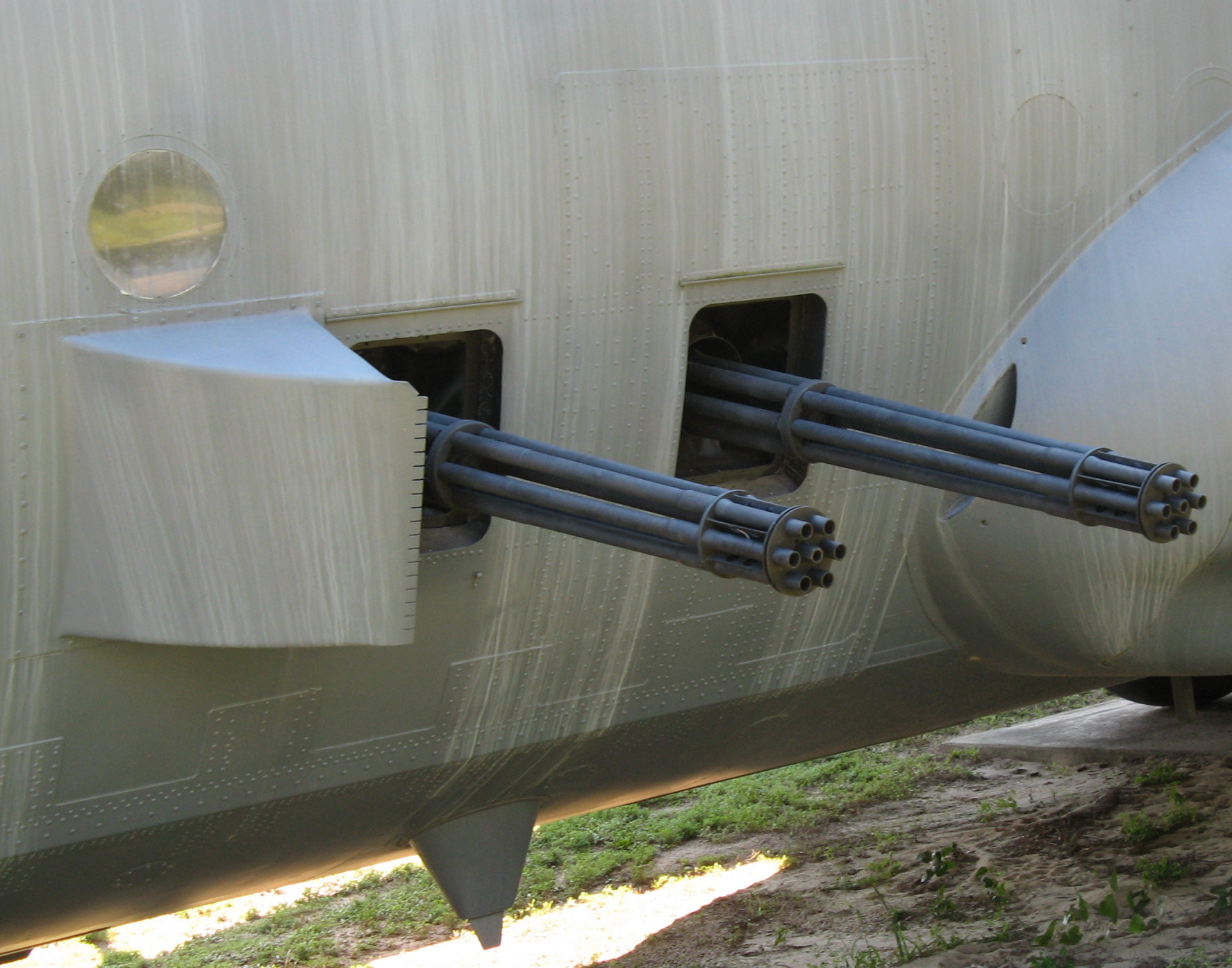 Vulcan cannons on Spectre gunship, USAF Armaments Museum, Eglin AFB, Florida